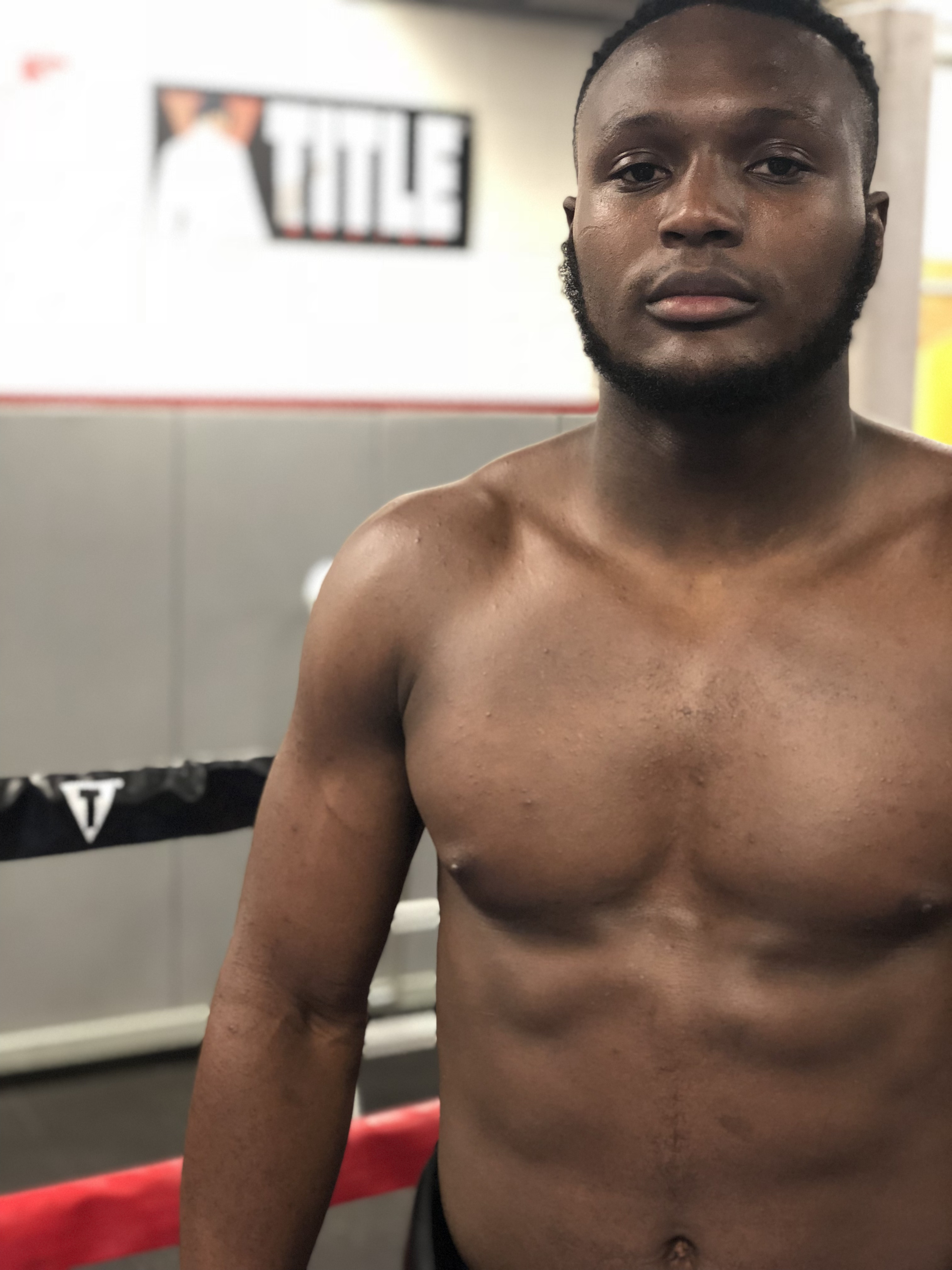 Viddal Riley at training.